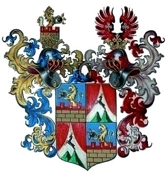 "File:Ritterstandsdiplom - Strele von Bärwangen (1855) 04" cropped and improved